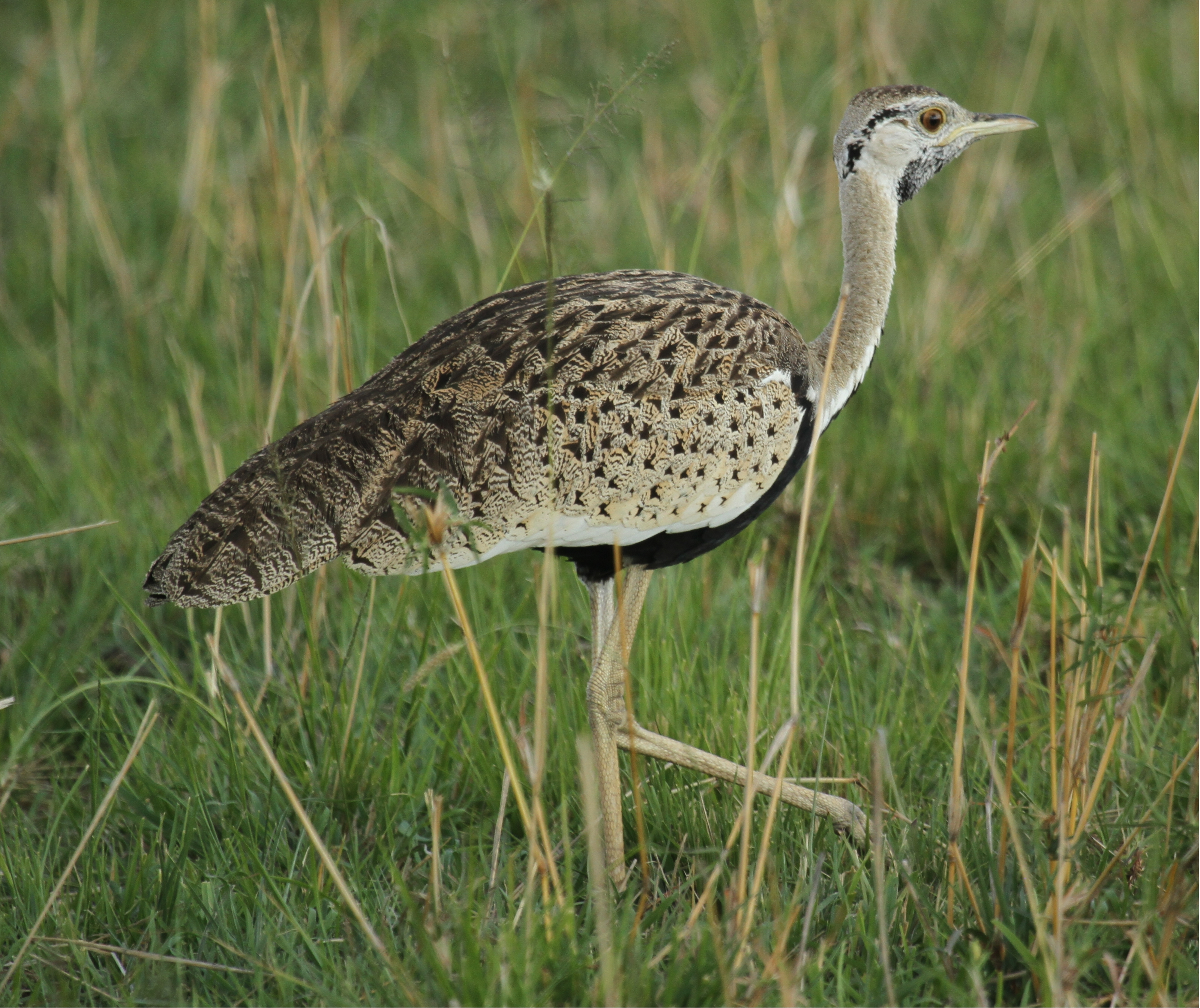 Maasai Mara - Kenya